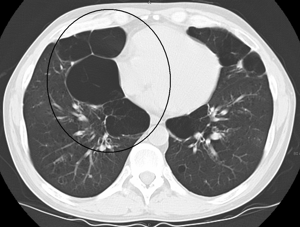 Bullus emphysema as seem on CT